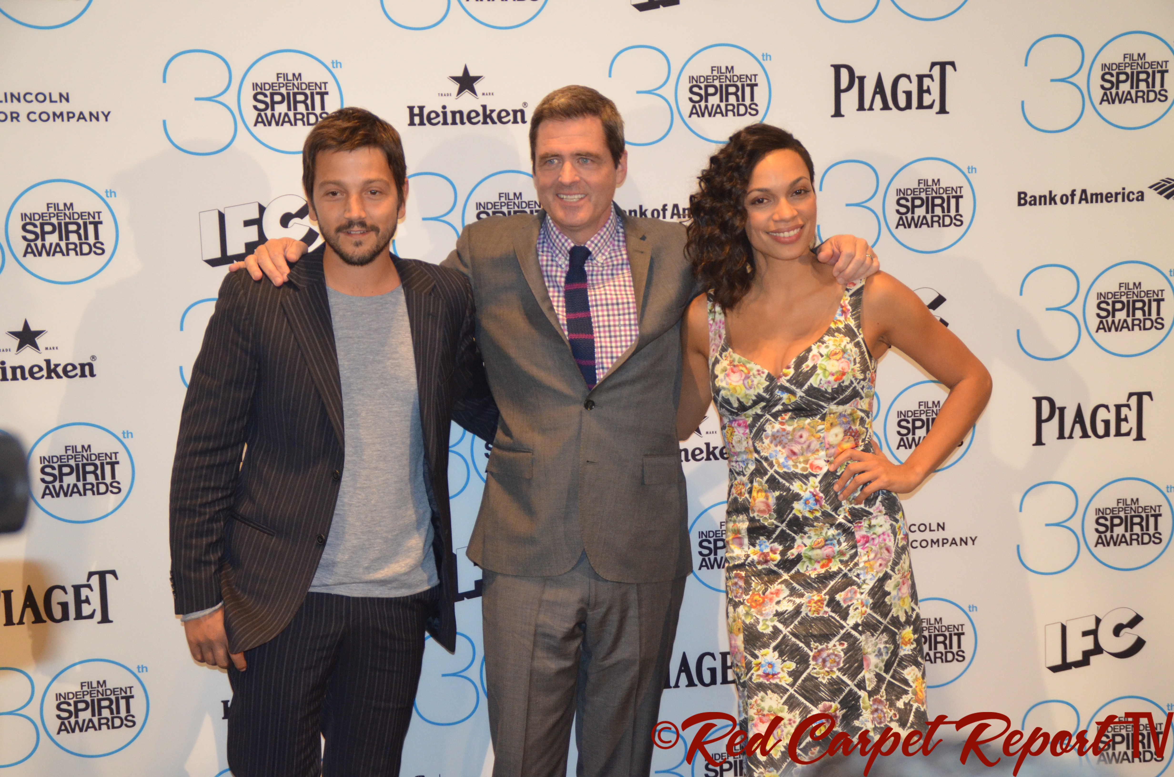 Diego Luna, Josh Welsh & Rosario Dawson at the 2015 Film Independent Spirit Awards Nominations Press Conference